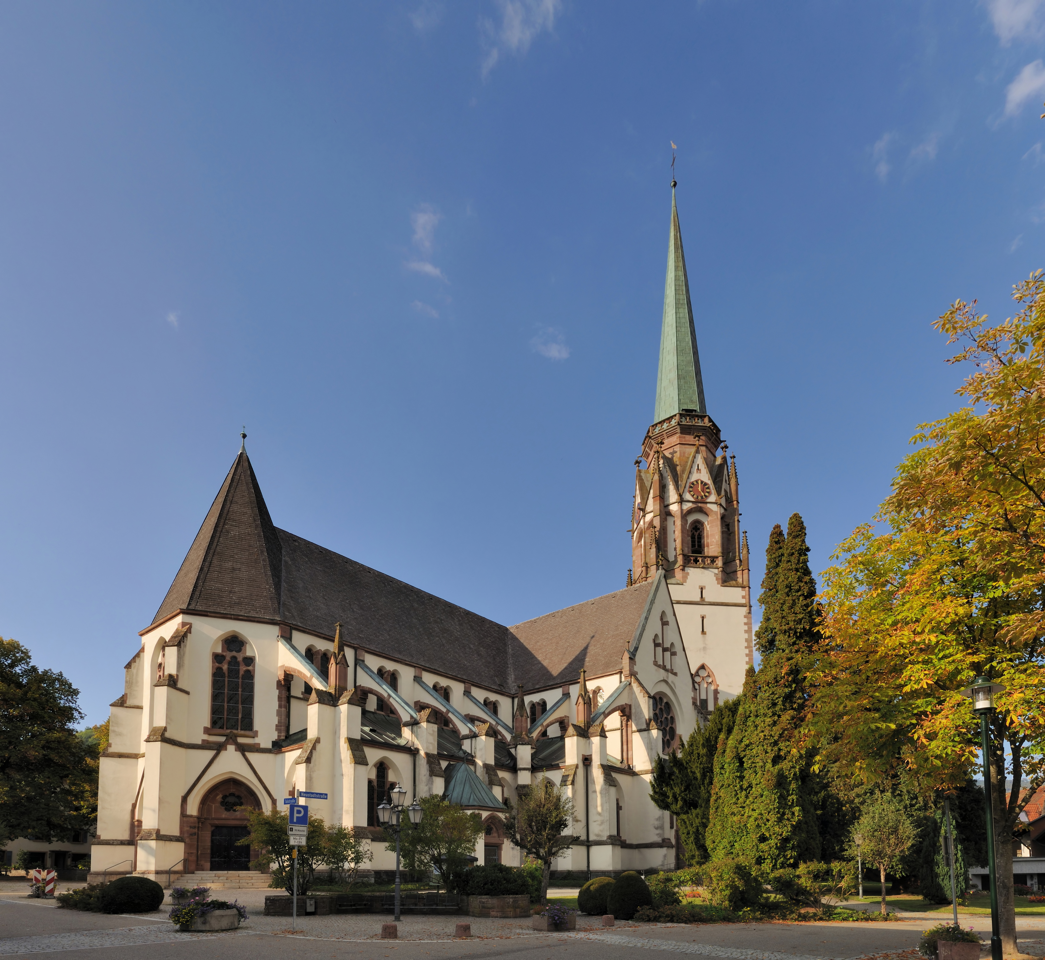 Schönau: Churches of the Assumption